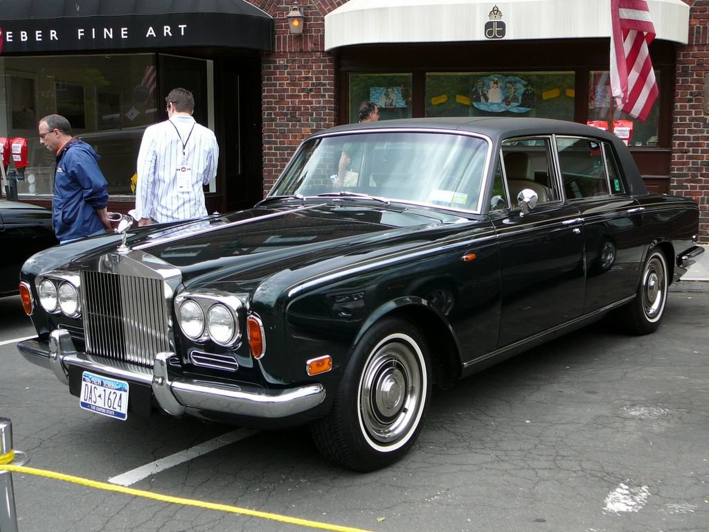 Rolls-Royce Silver Shadow I, 1966-1973 model, inexpertly parked.